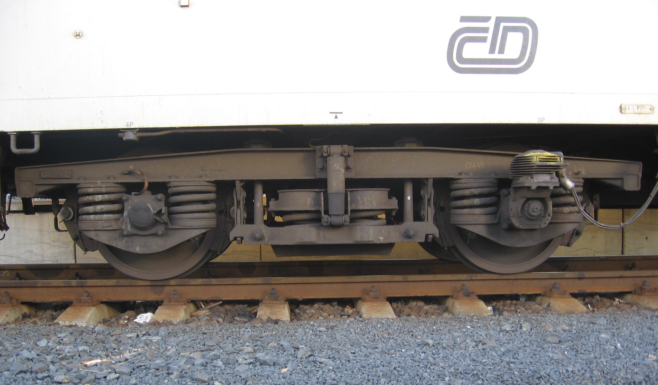 Bogie type Görlitz Va under ČD Class BDs